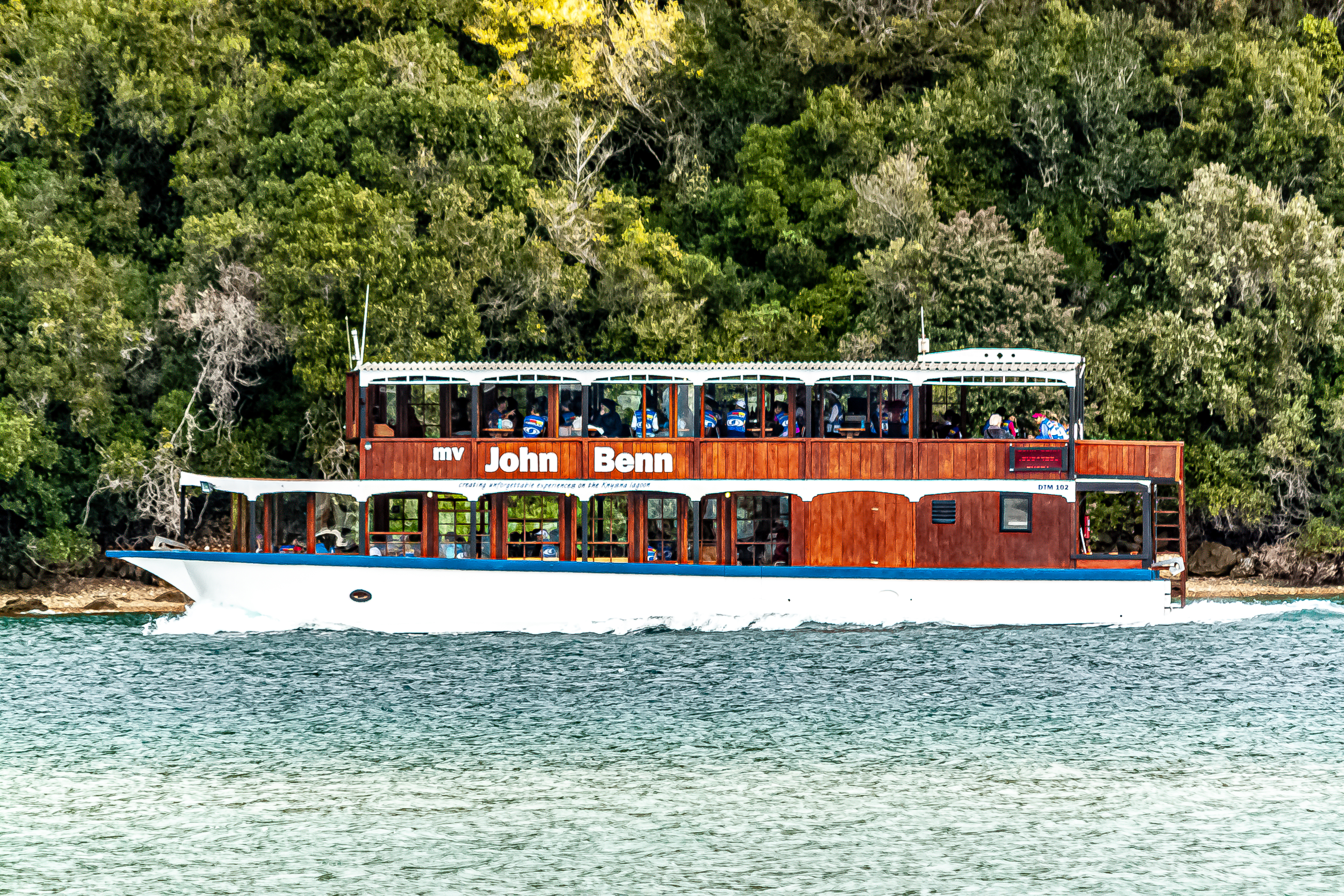 A cruse on the lake in Knysna This is an image with the theme "Africa on the Move or Transport" from: South Africa